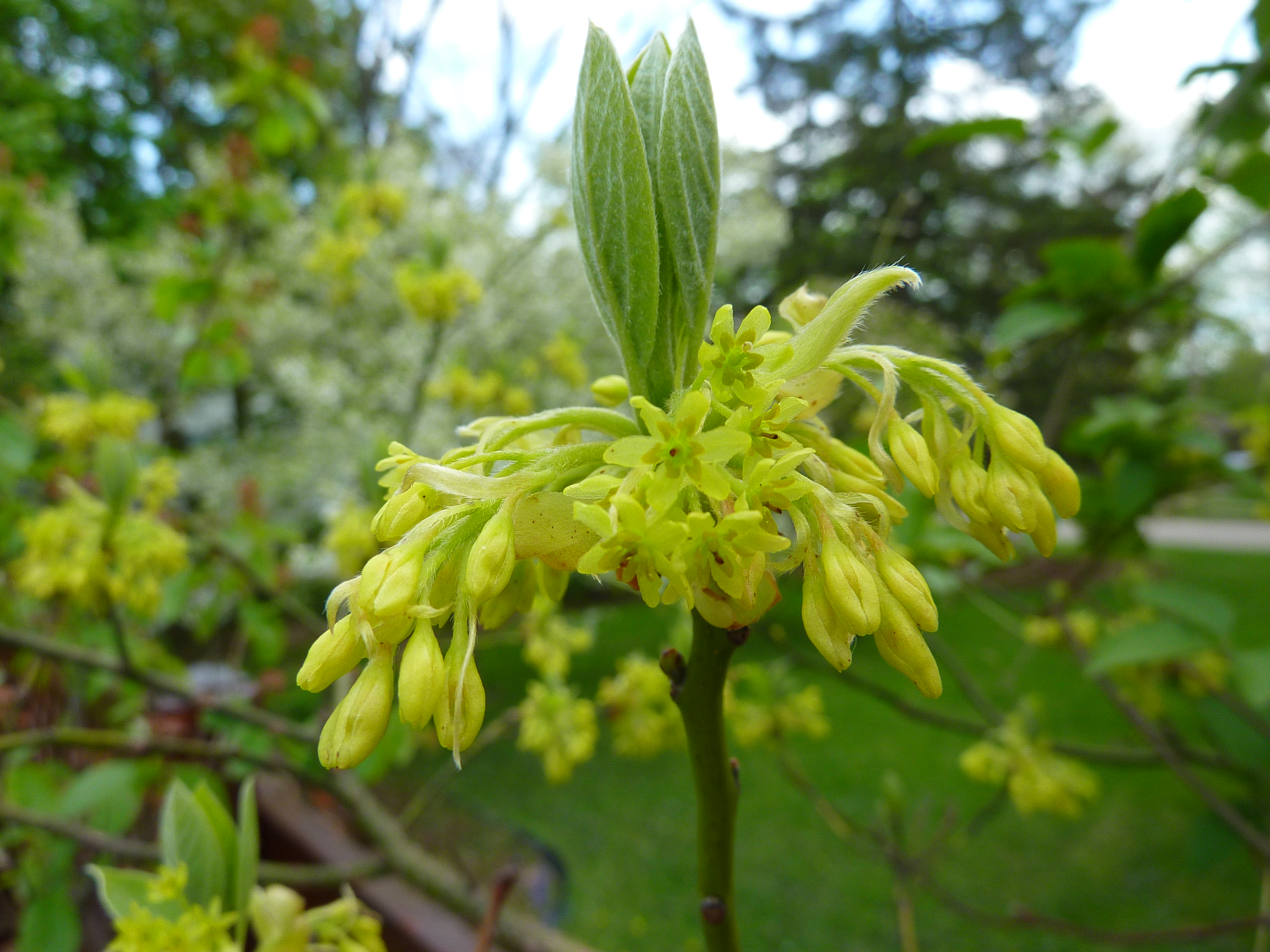 Sassafras albidum flowering in the garden of botanist Robert R. Kowal in Madison, Wisconsin